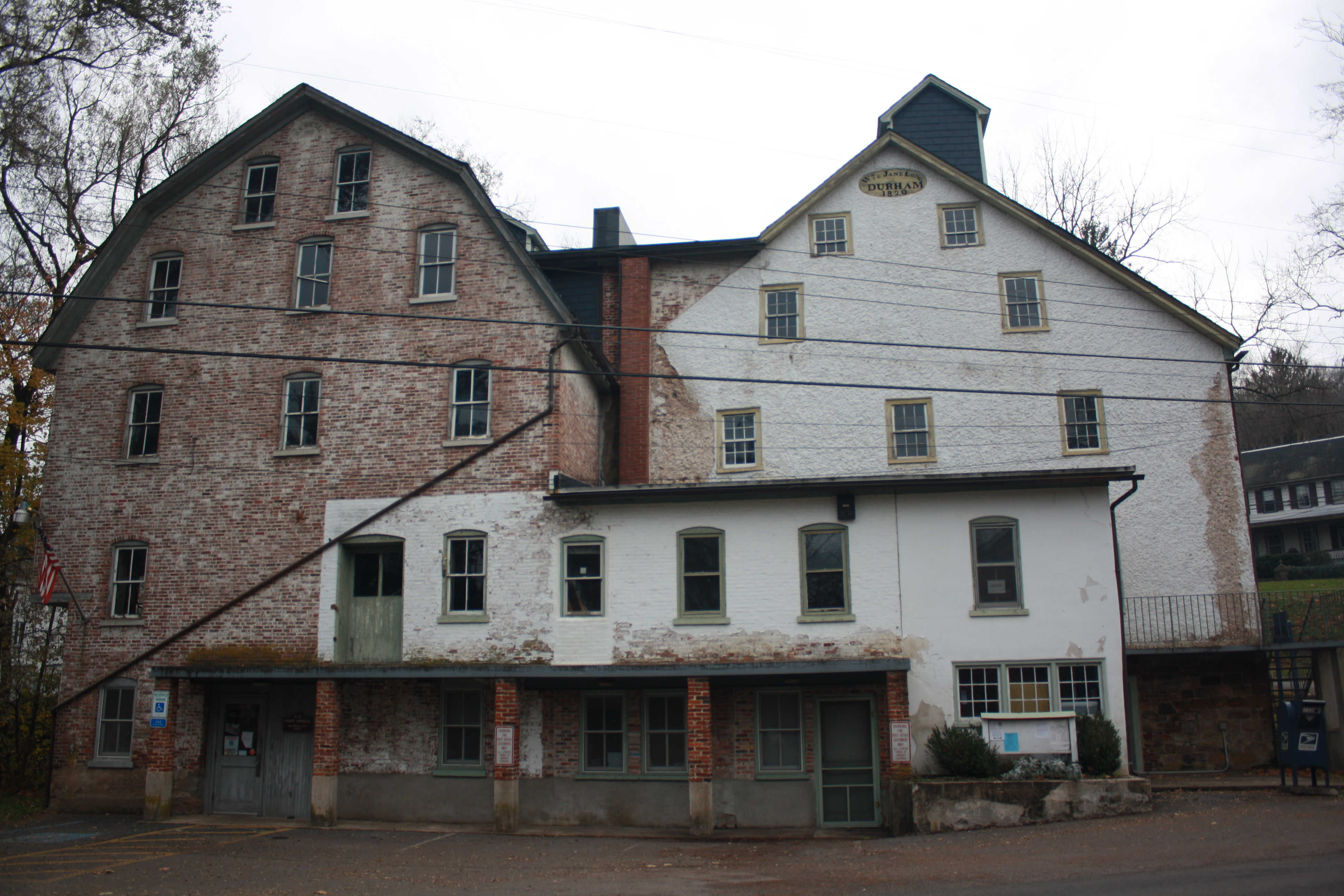 Durham Mill and Furnace is a historic grist mill located in Durham Township, Bucks County, Pennsylvania. The mill was built in 1820, on the foundations of Durham Furnace. Object location40° 34′ 35″ N, 75° 13′ 27″ W